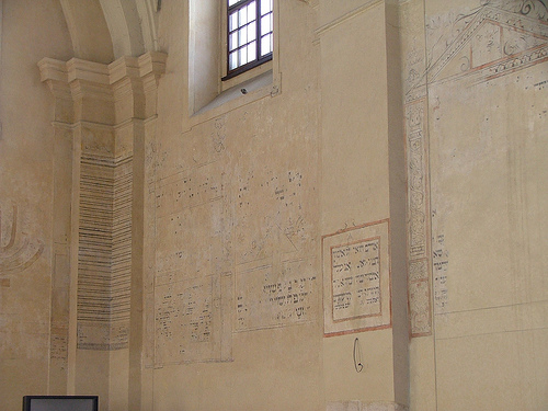 Isaac Synagogue in Kraków